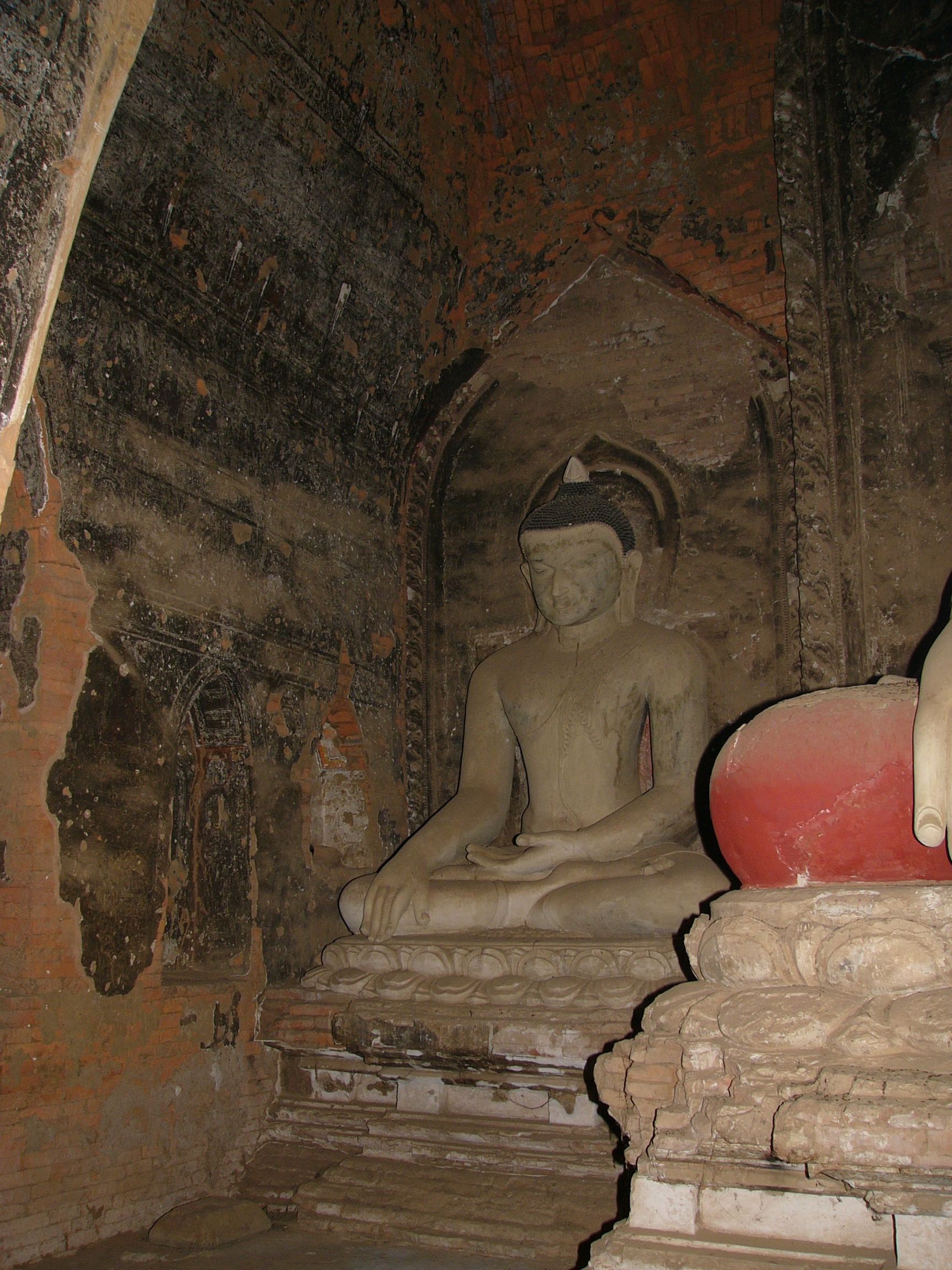 Bagan (Burma), Pahto-tha-mya